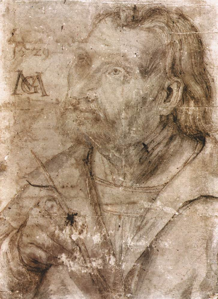 In the past often regarded as a self-portrait of Grünewald, but according to the most recent research rather a study of the writing John the Evangelist on Patmos